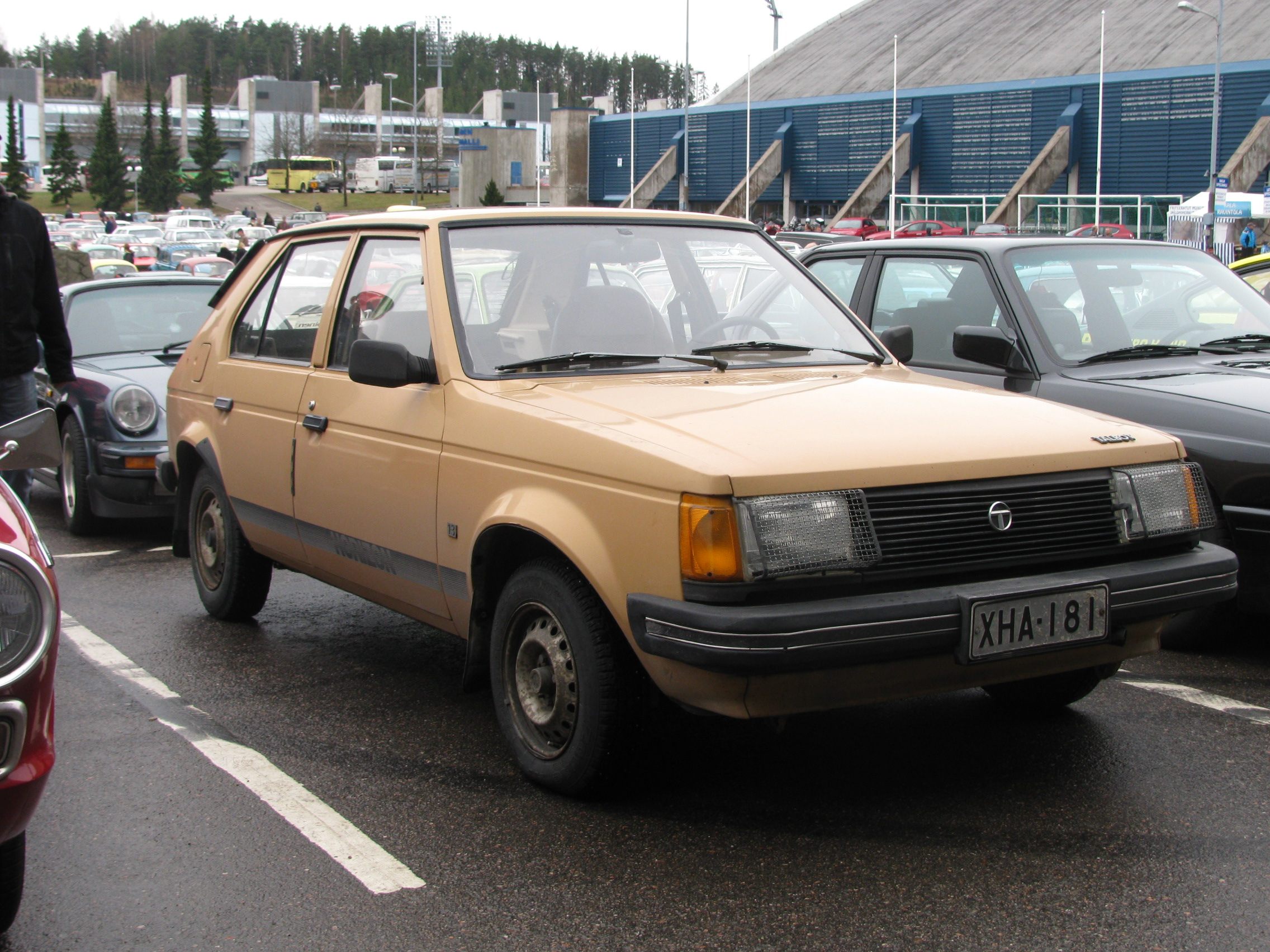 Talbot Horizon, Uusikaupunki model, Classic Motor Show parking lot in Lahti, Finland.